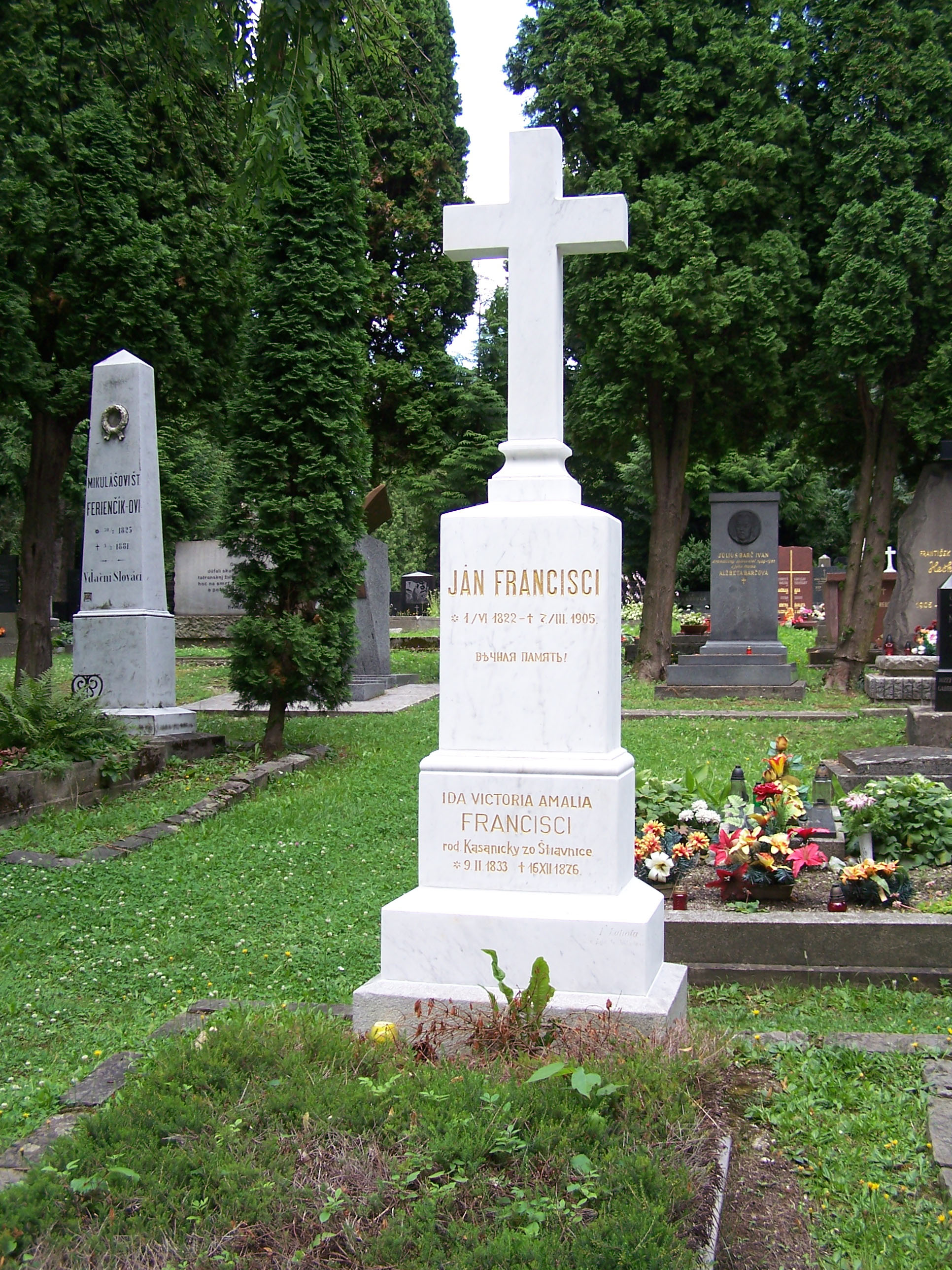 Grave of Ján Francisci at the National Cemetery in Martin, Slovakia